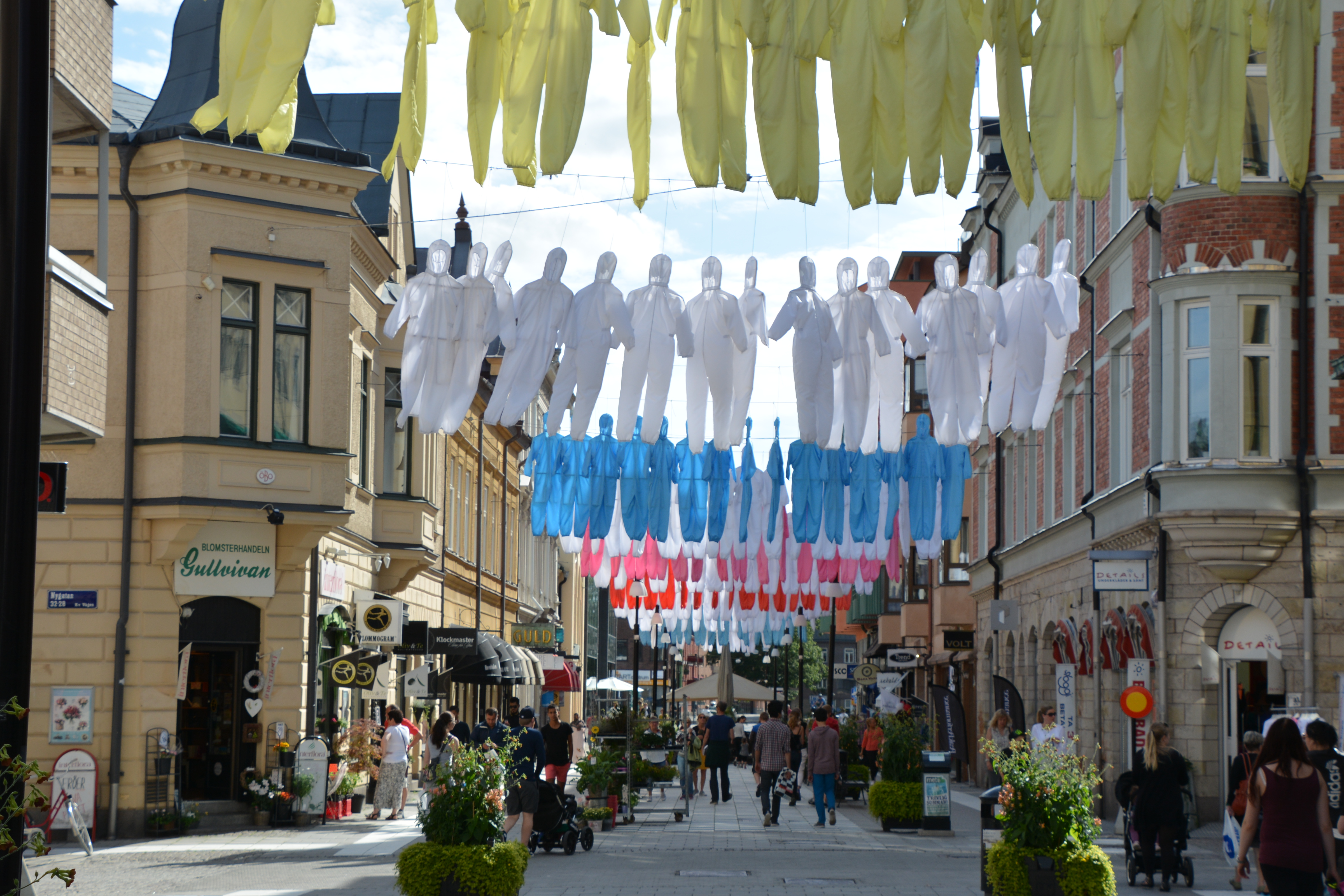 Think different (How to hang workers´ uniforms), above Köpmangatan in Örebro, at Örebro Open Art June-September, 2015.